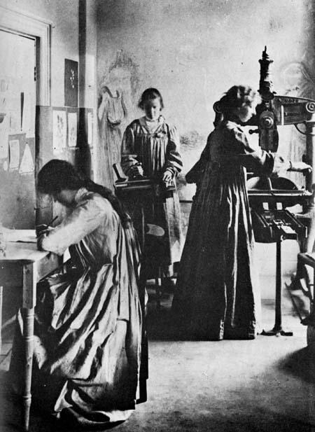 Photograph of the Dun Emer Press at work, ca. 1903: Elizabeth Corbet Yeats standing at the hand-press, Beatrice Cassidy standing to roll ink, Esther Ryan at a table correcting proofs.